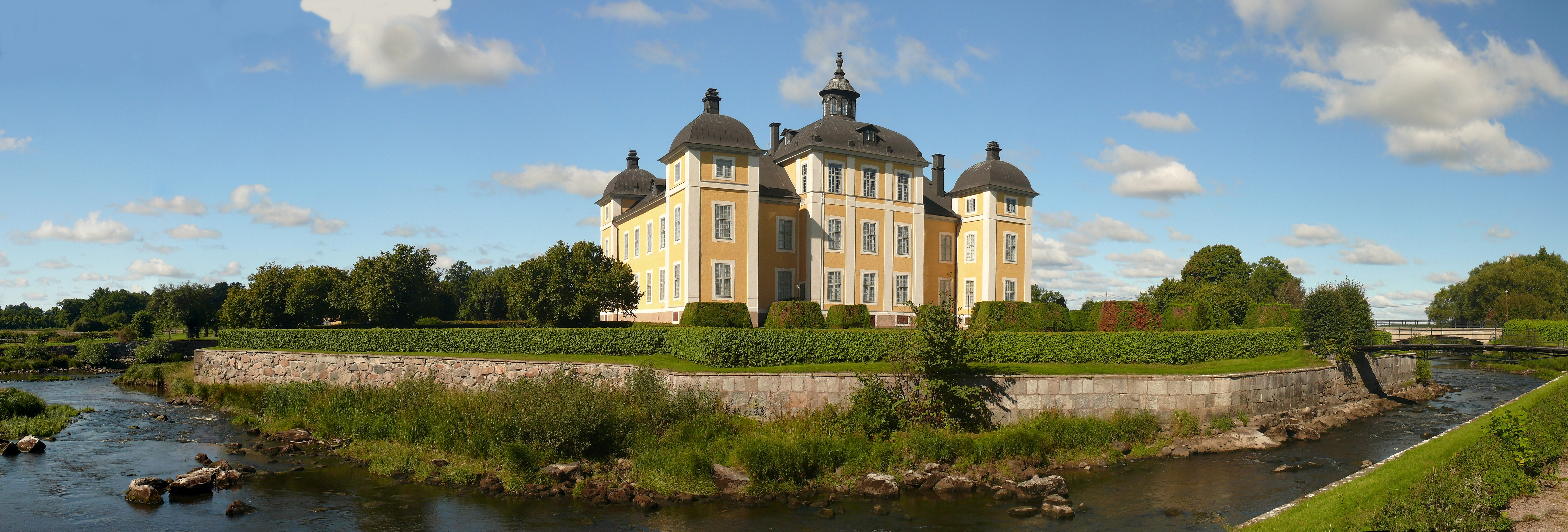 Strömsholms Castle